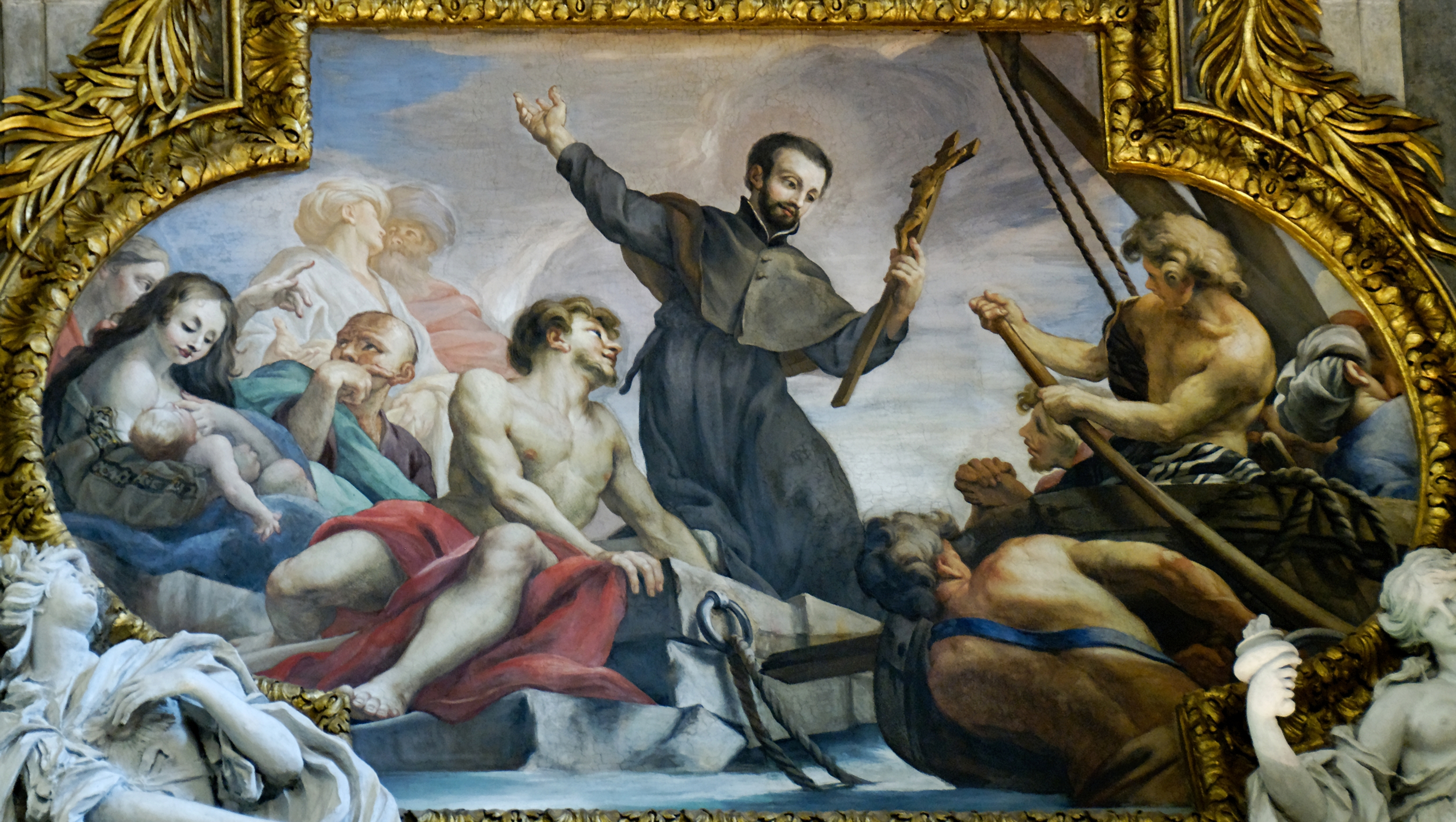 St. Francis Xavier finding back its cross, brought by a crablabel QS:Len,"St. Francis Xavier finding back its cross, brought by a crab"label QS:Lfr,"Saint François Xavier retrouve son crucifix apporté par un crabe"label QS:Lit,"S. Francesco Saviero che riceve da un granchio il crocifisso che avena perduto"